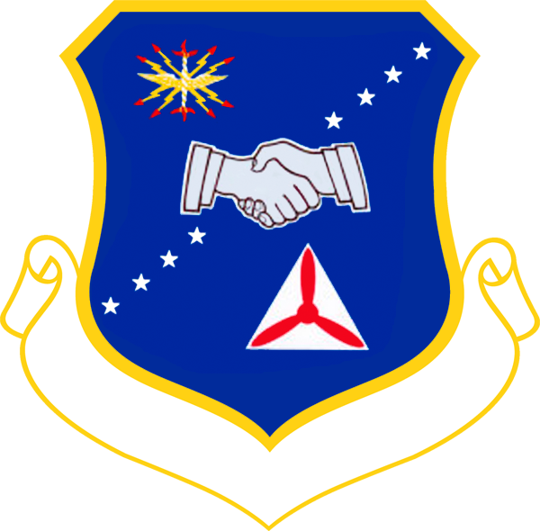 United States Air Force Civil Air Patrol emblem. Made with Photoshop.